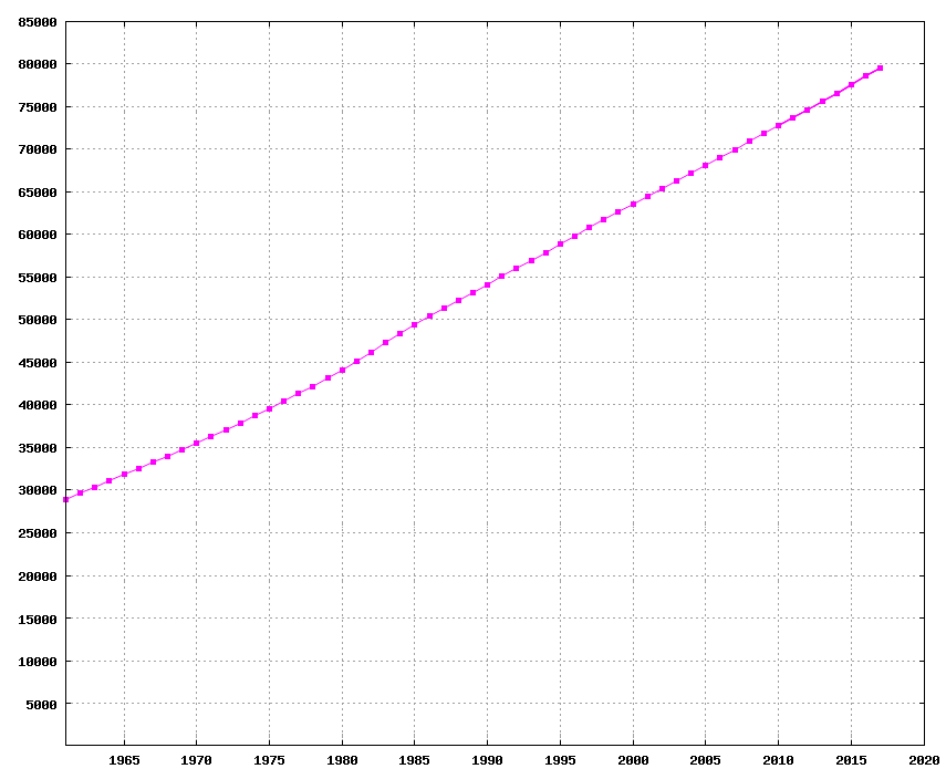 Turkey's population (1961–2016). Y-axis: number of inhabitants in thousands